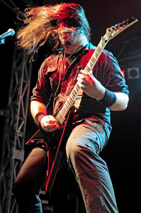 Corey Beaulieu at Soundwave Festival 2010